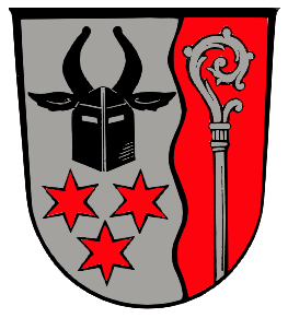 Coat of Arms of Walting